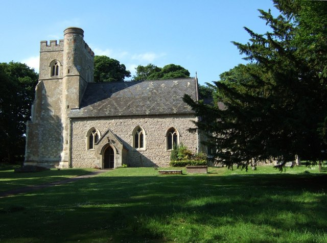 St. Mary the Virgin, Kensworth. The lovely parish church of St.Mary the Virgin is at Church End in Kensworth quite a little way from the main part of Kensworth village. It is a very tranquil and beautiful spot, quite a contrast to the busy road through the main part of the village.